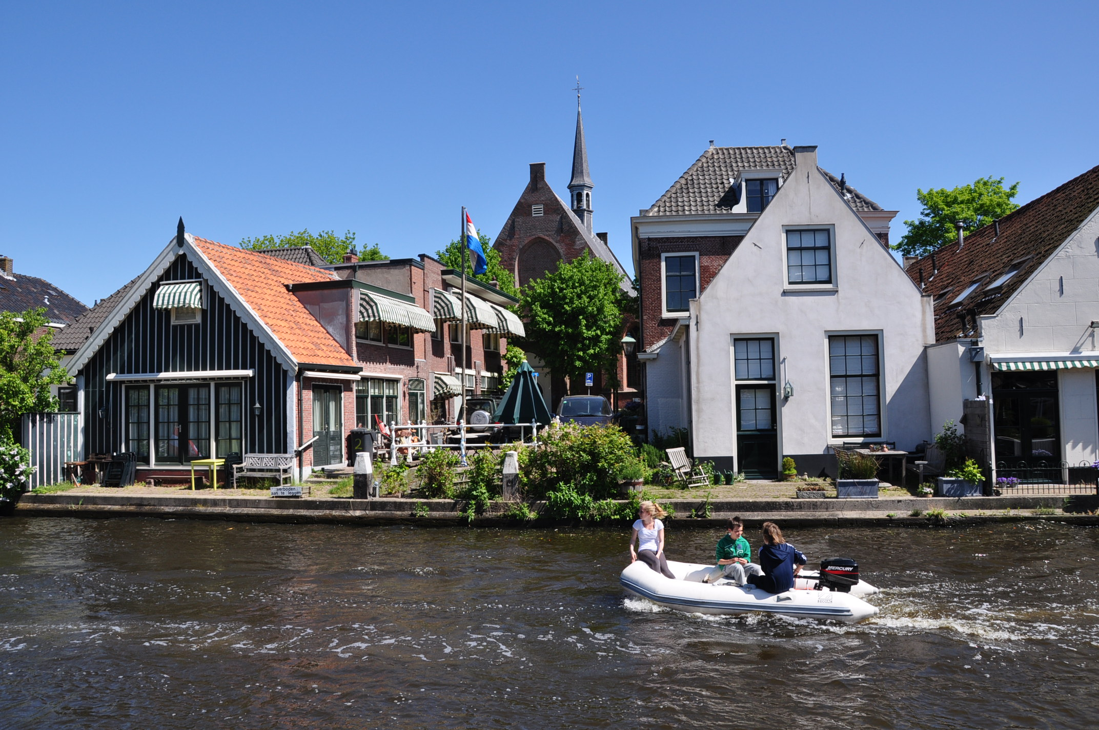 Centre of Leiderdorp on the Old Rhine (Province of South Holland, Netherlands).